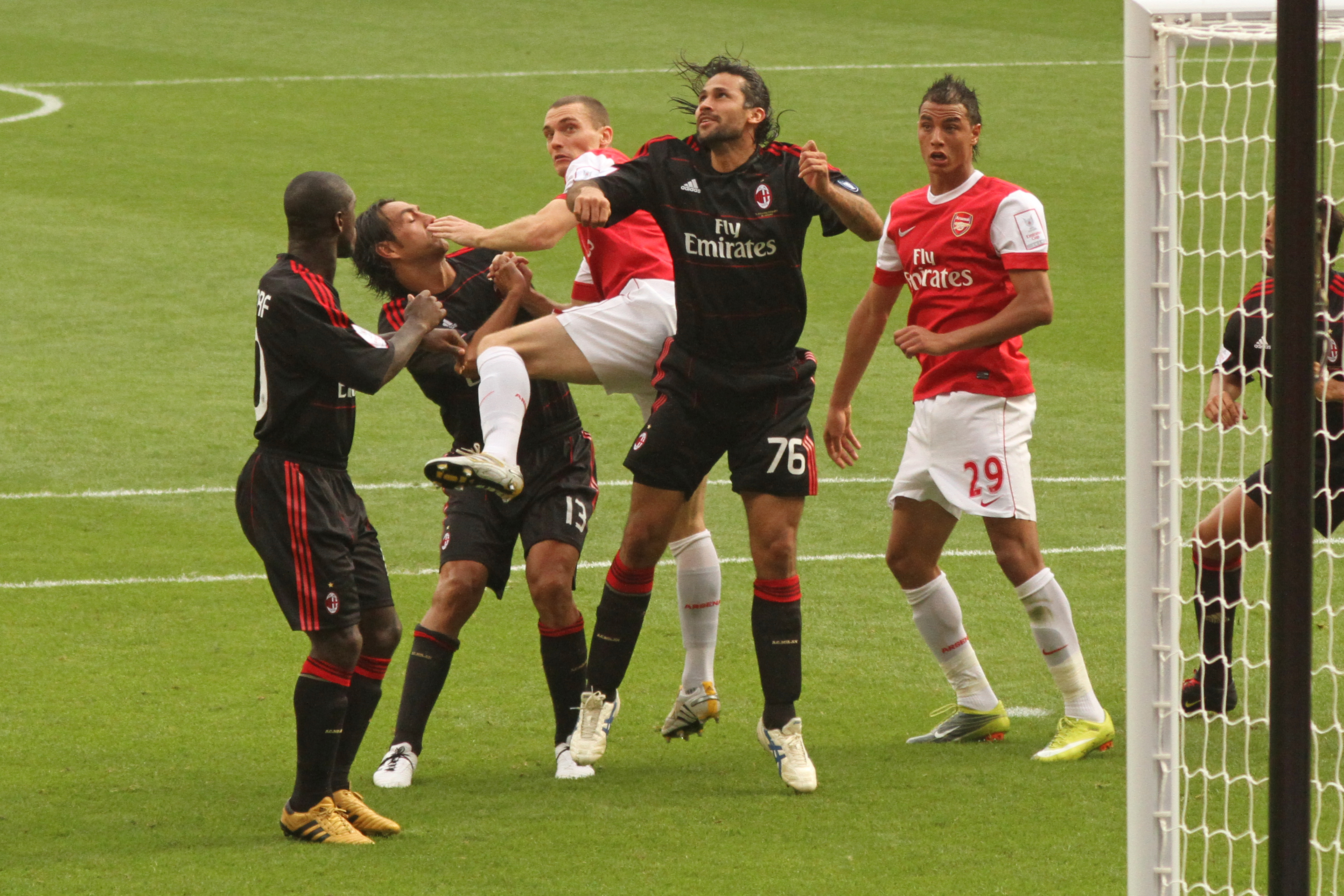 Clarence Seedorf, Alessandro Nesta, Thomas Vermaelen, Mario Yepes & Marouane Chamakh